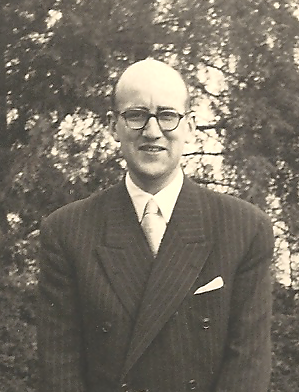 Photo of Doctor Baião Pinto in 1956